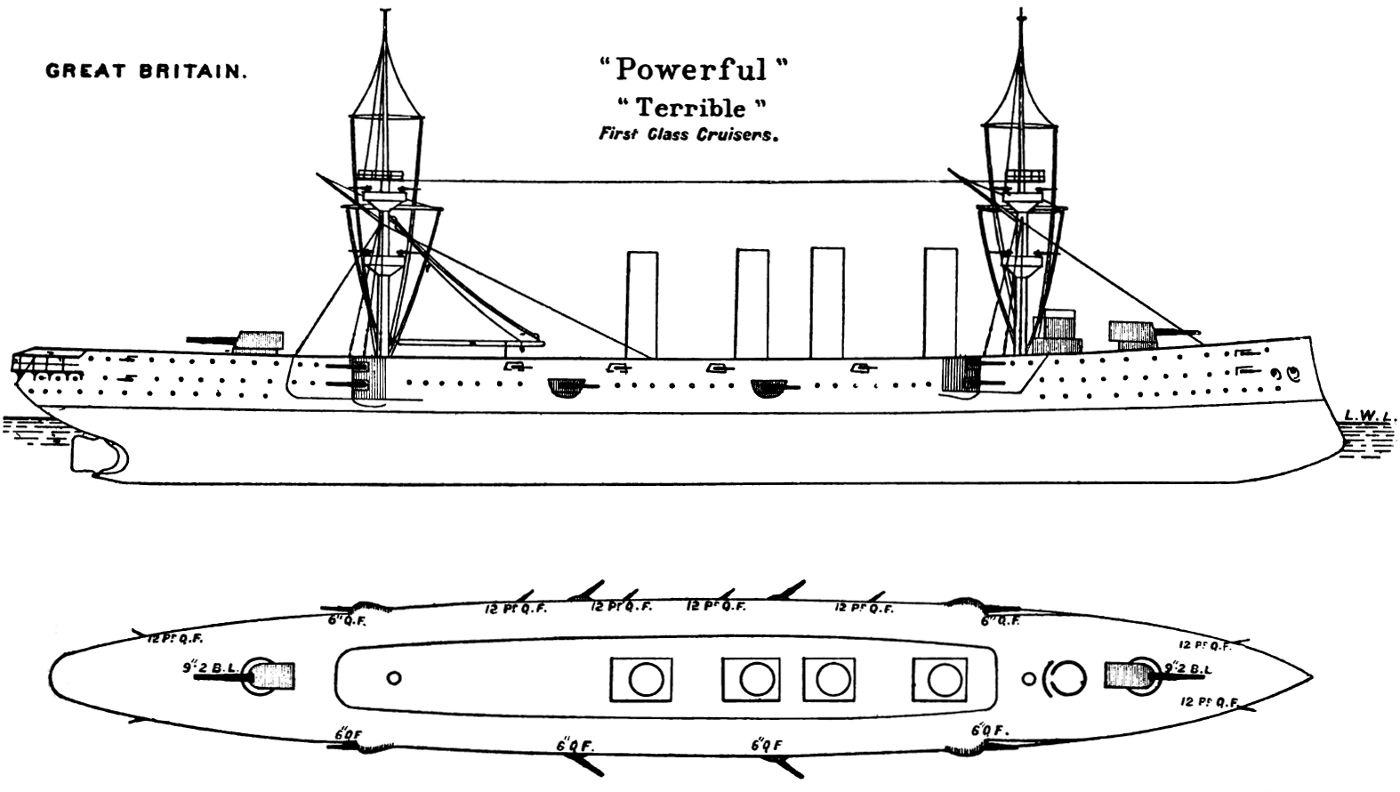 Right elevation, deck plan and hull cross-section diagrams, illustrating British Powerful class cruiser.